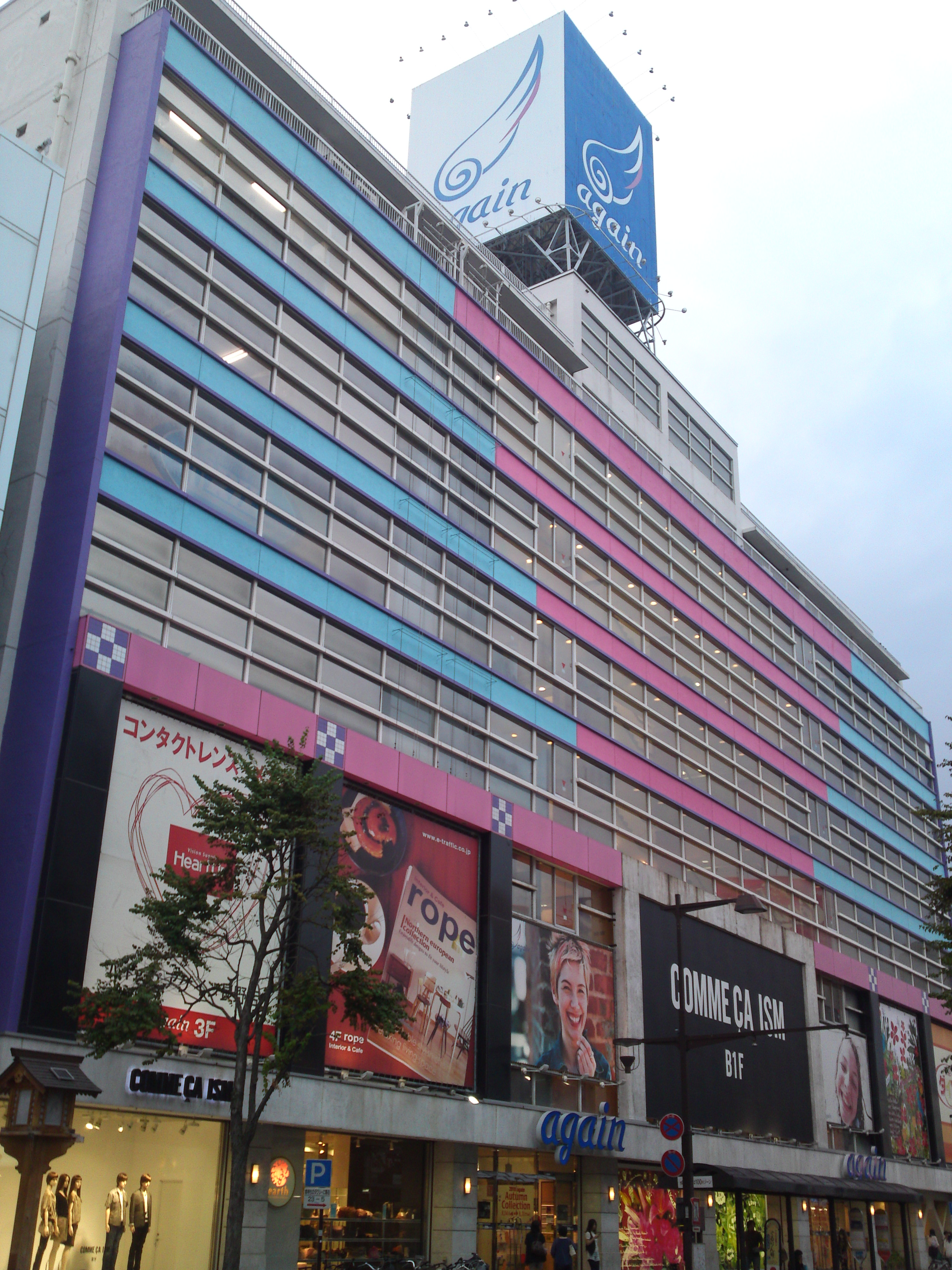 Shopping Plaza 'again', Nagano, Nagano, Japan